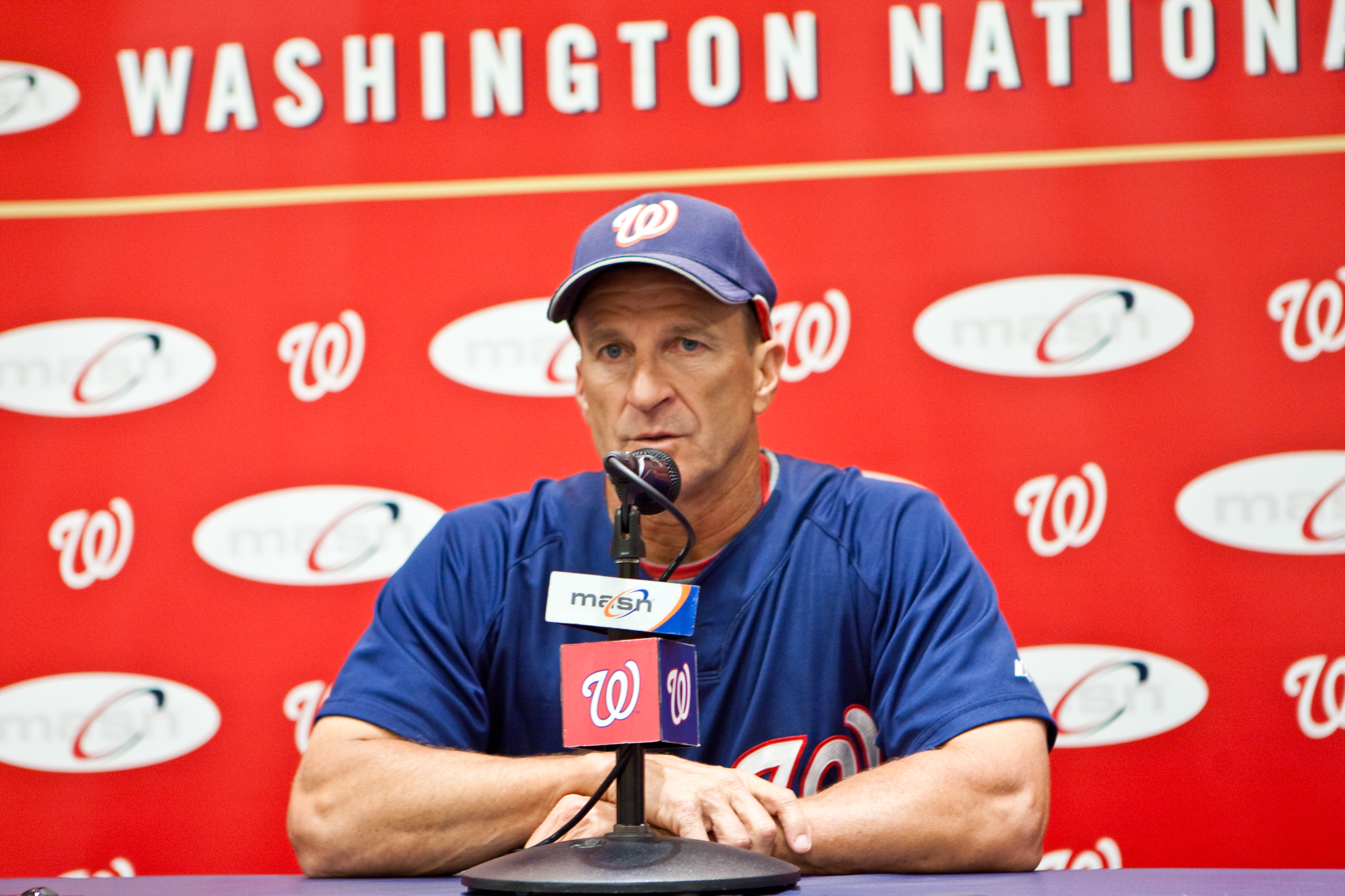 Jim Riggleman speaks to the bloggers